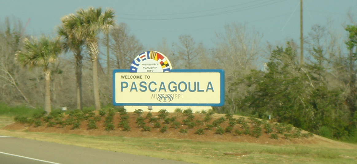 Sign on U.S. Route 90 when entering Pascagoula, Mississippi